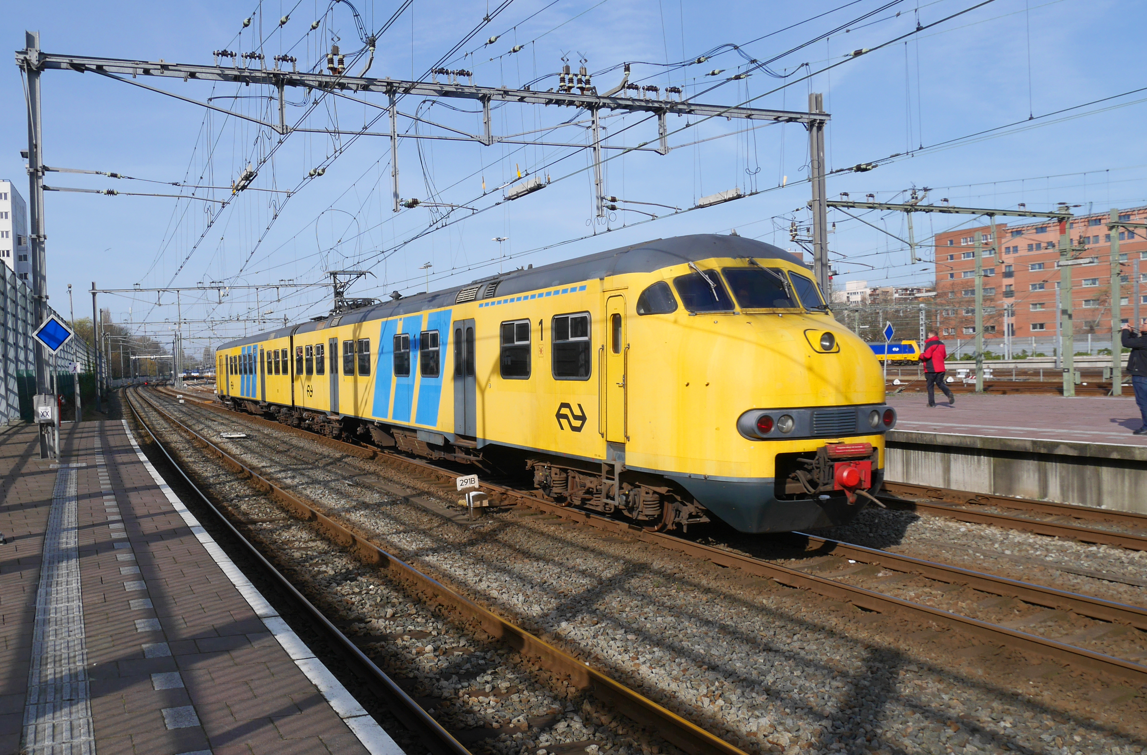 The heritage ‘Mat ’64’ train no. 876 is leaving Rotterdam C. as a special service to Hoek van Holland Haven. This is the last Sunday of NS trains on the ‘Hoekse Lijn’.